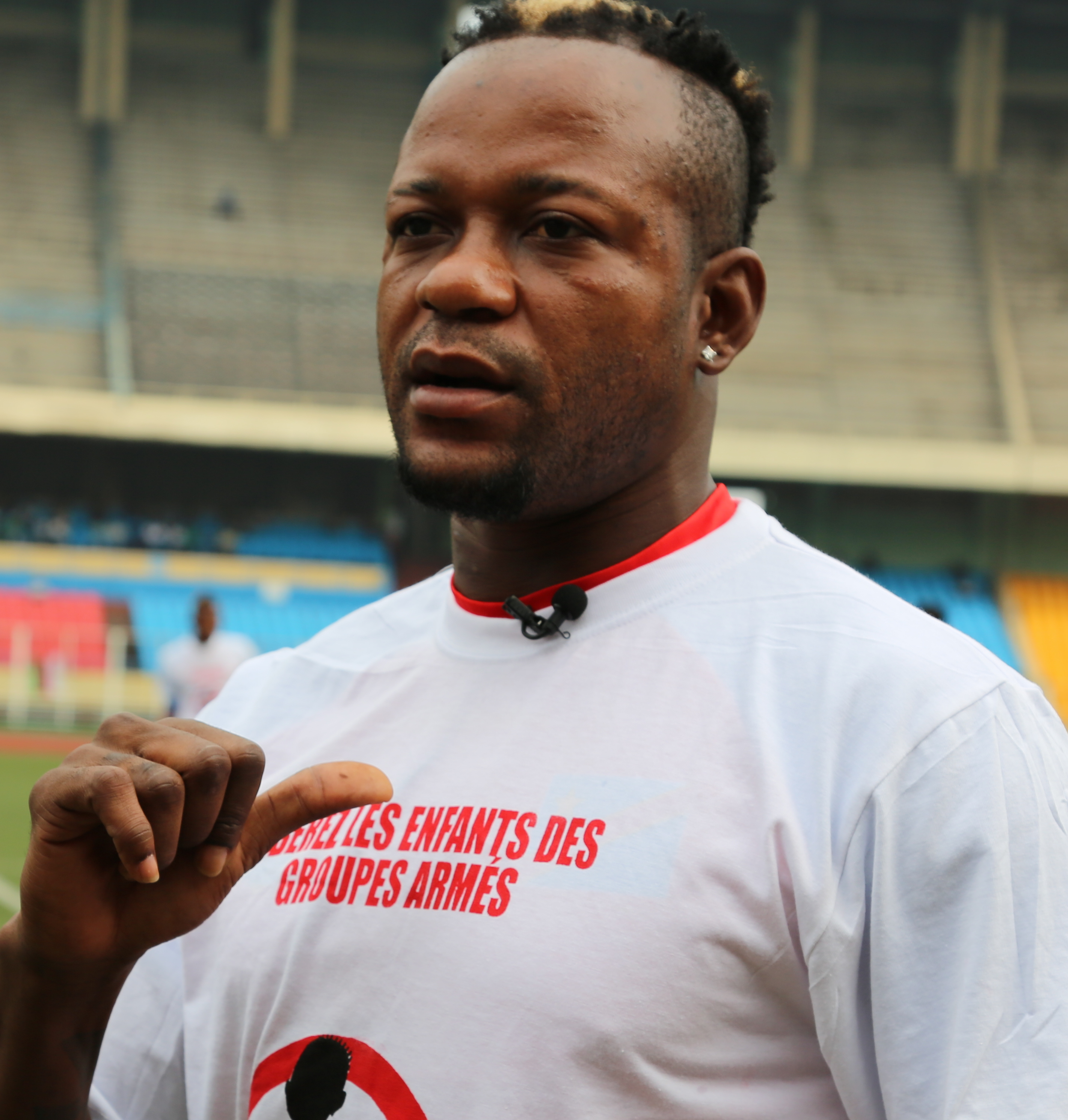 Joël Kimwaki participating in a MONUSCO Child Protection Unit campaign against recruitment of Child soldiers.